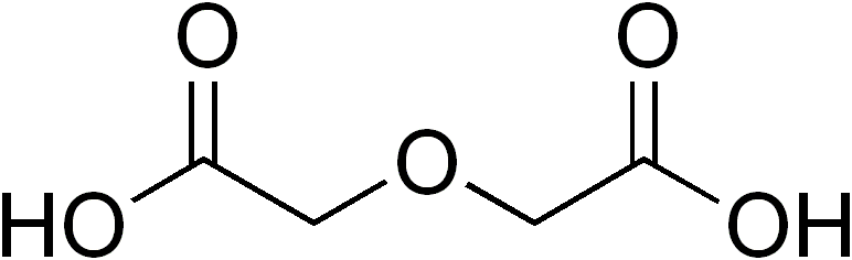 chemical structure of diglycolic acid